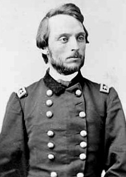 John M. Corse, Union General.